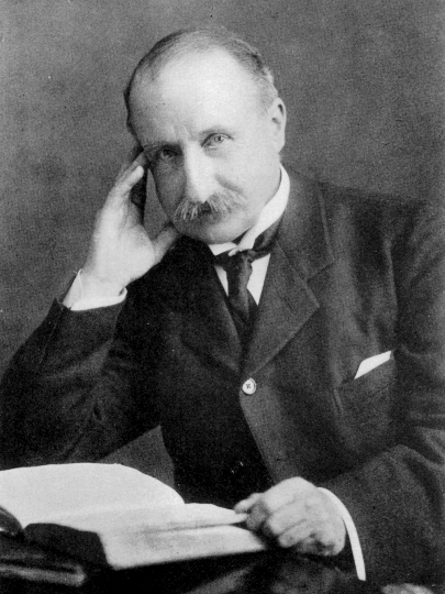 Photo of James Sykes Gamble